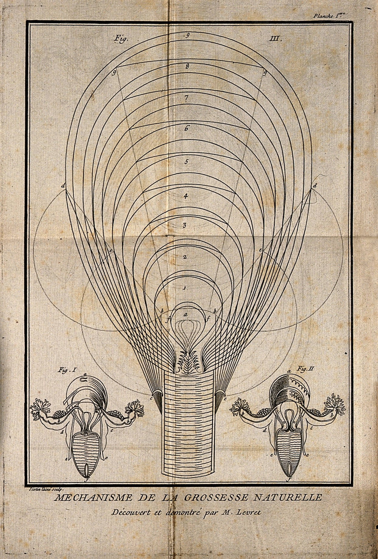 Three interior diagrams of a human uterus. Etching by G. Scotin. Iconographic Collections Keywords: Gérard Scotin; André Levret